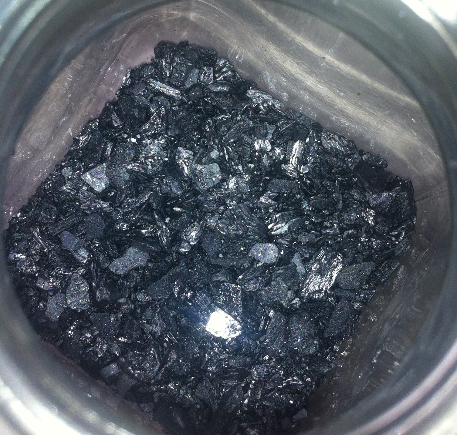 crystalline, twice sublimed iodine